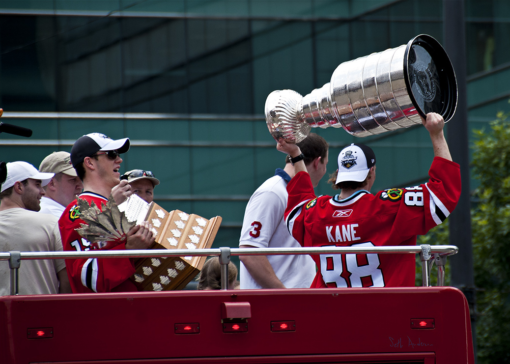 Patrick Kane hoists the Stanley Cup while Jonathan Toews holds the Conn-Smythe Trophy at the Blackhawks Victory parade in Chicago, Illinois.